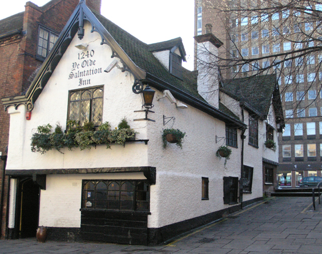 Ye Olde Salutation Inn, Nottingham